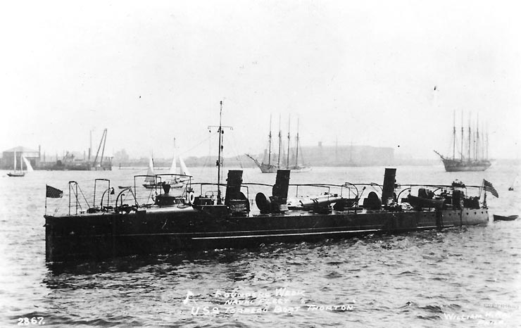 Photo of USS Thornton